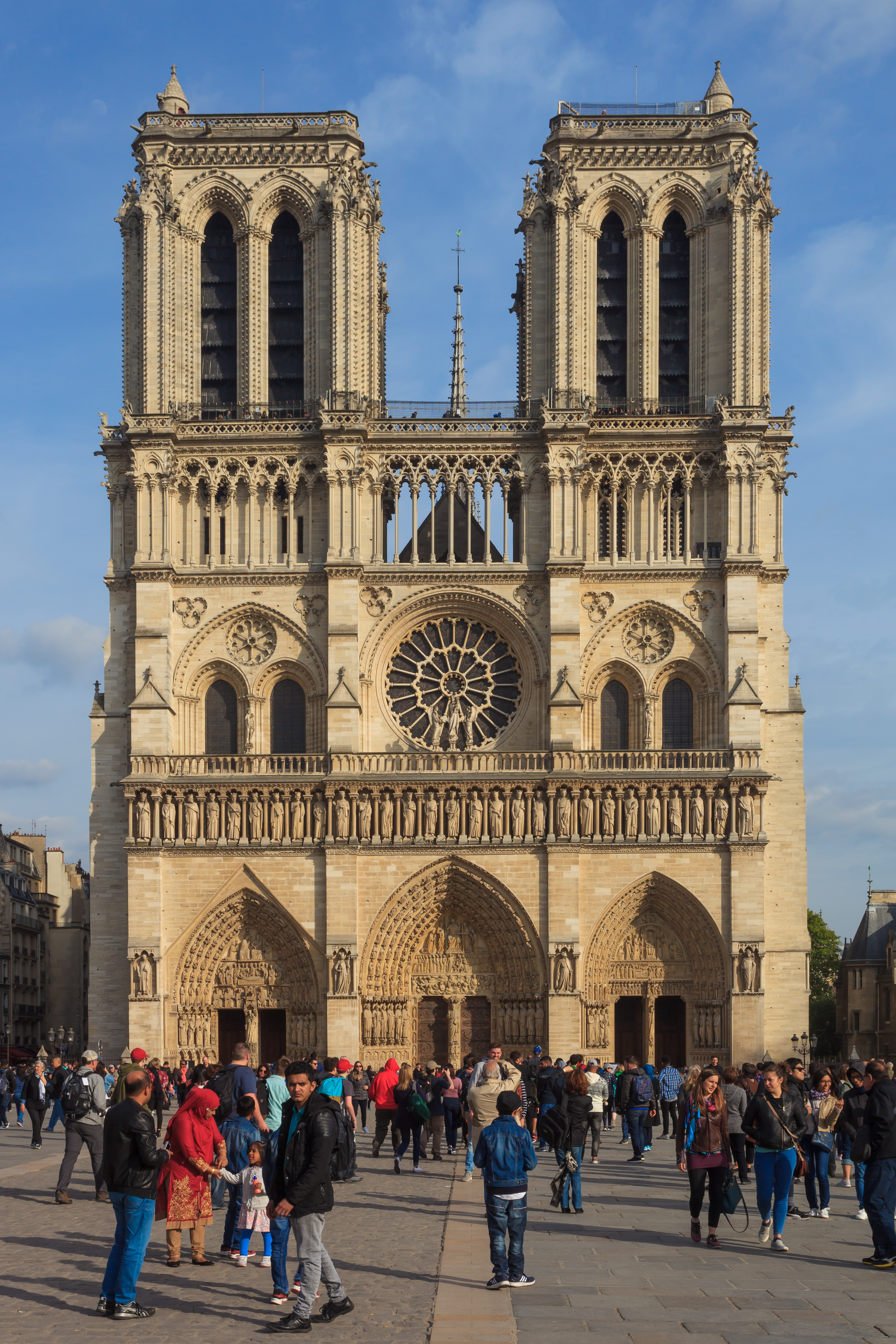 West facade of Notre-Dame de Paris in 2017